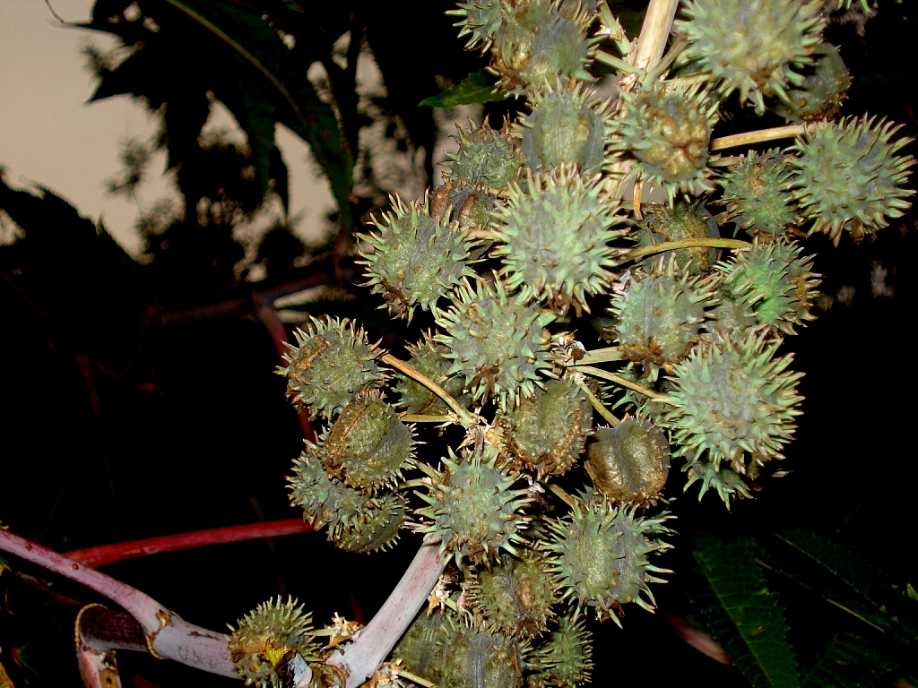 Ricinus communis, castor oil plant